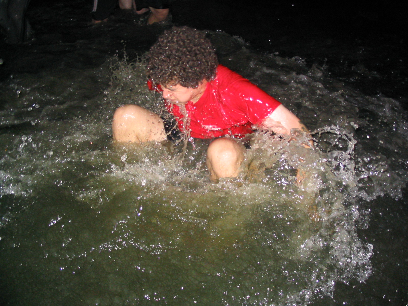 A male student at Patrick Henry College is dunked in Lake Bob after announcing his engagement.